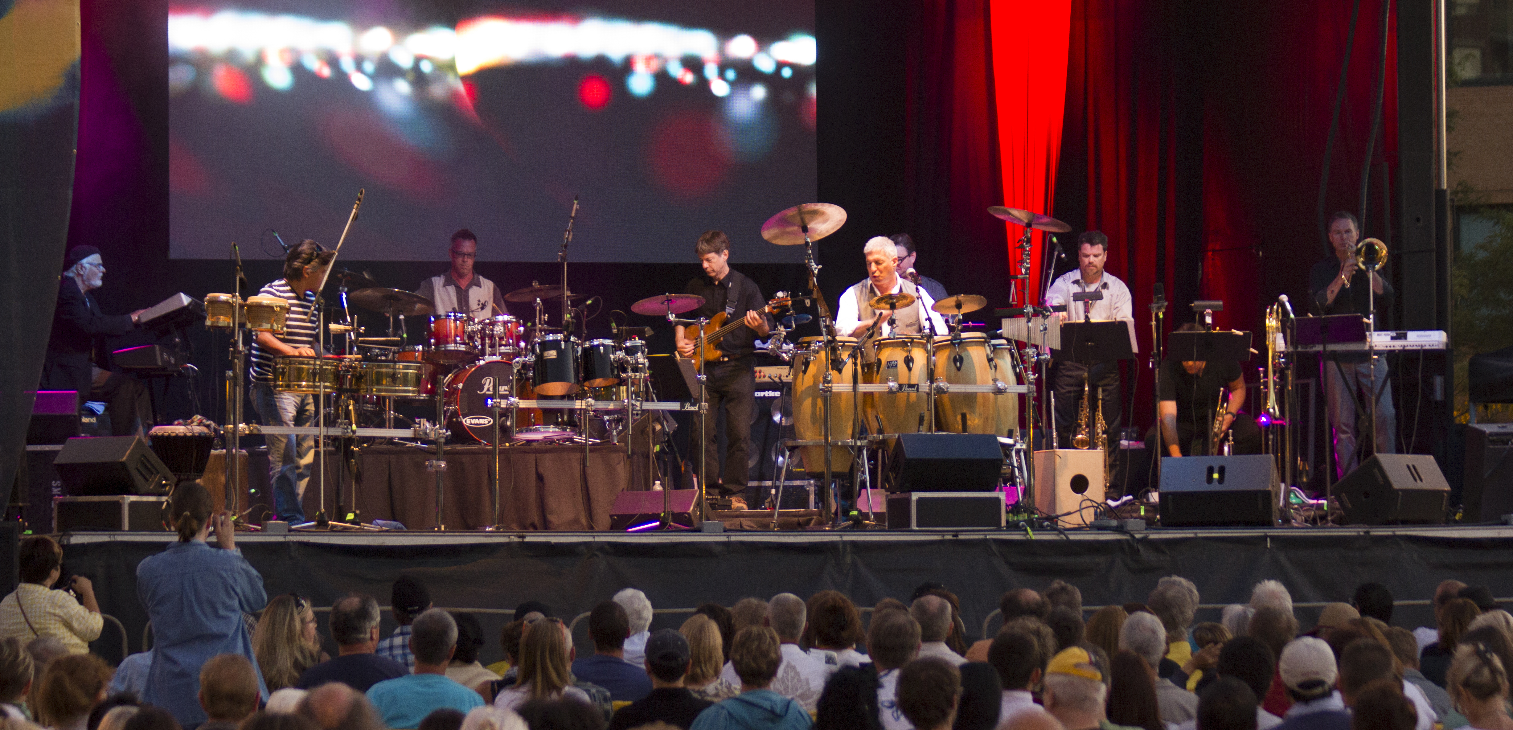 Manteca performing at the Uptown Waterloo Jazz Festival